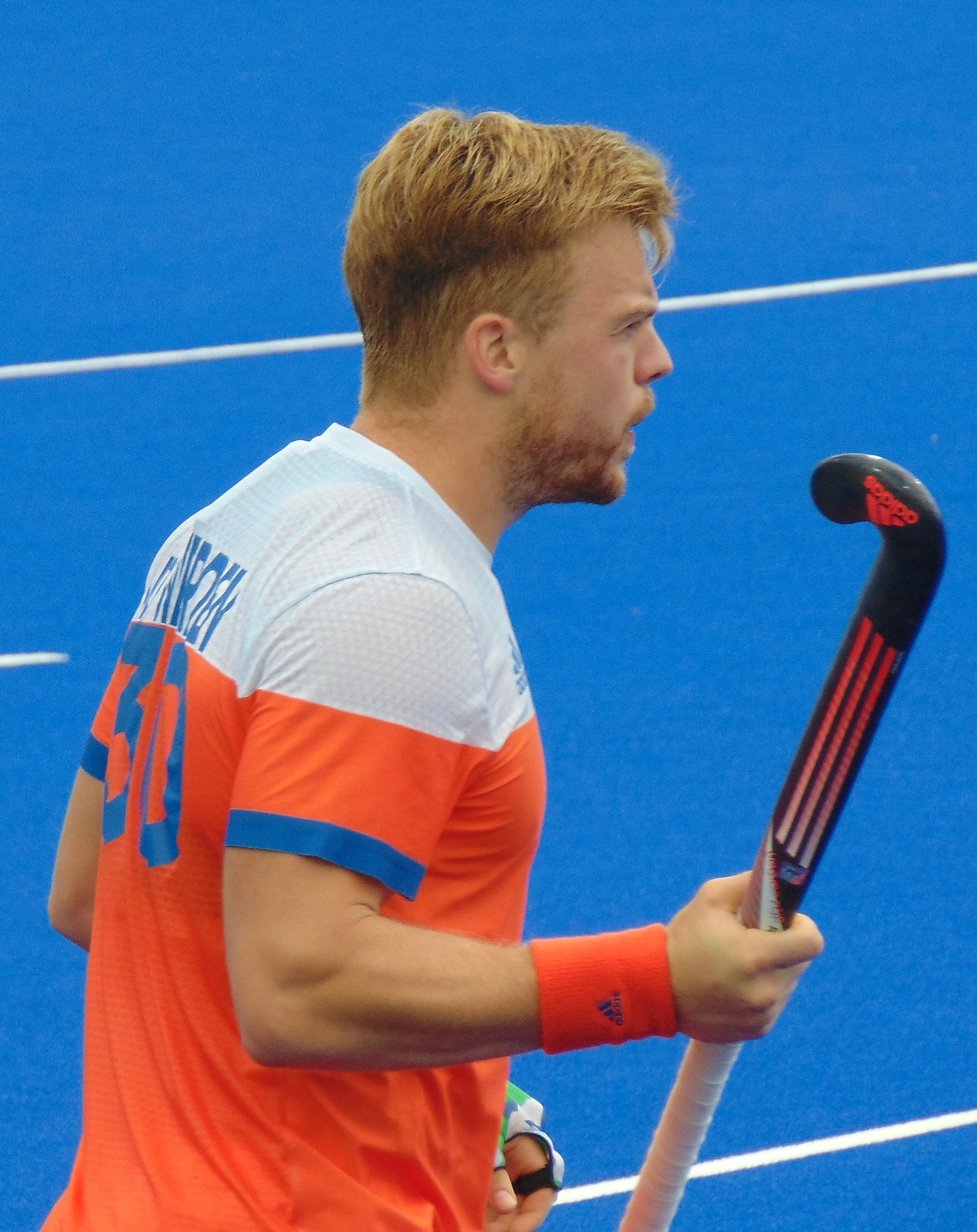 Rio 2016 - Men's and Women's Field hockey (HO025)